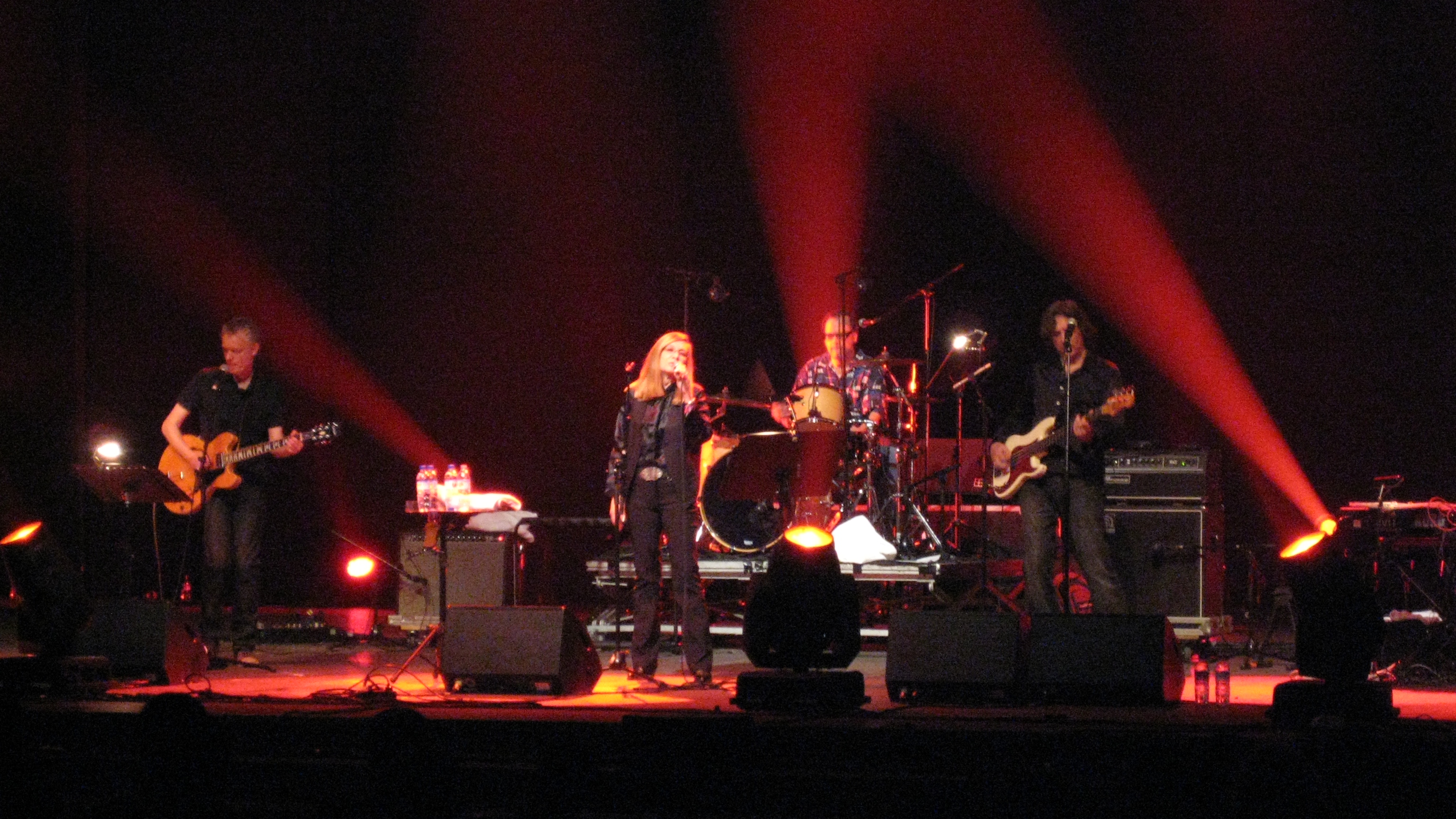 Mary Weiss at Primavera Sound 2008